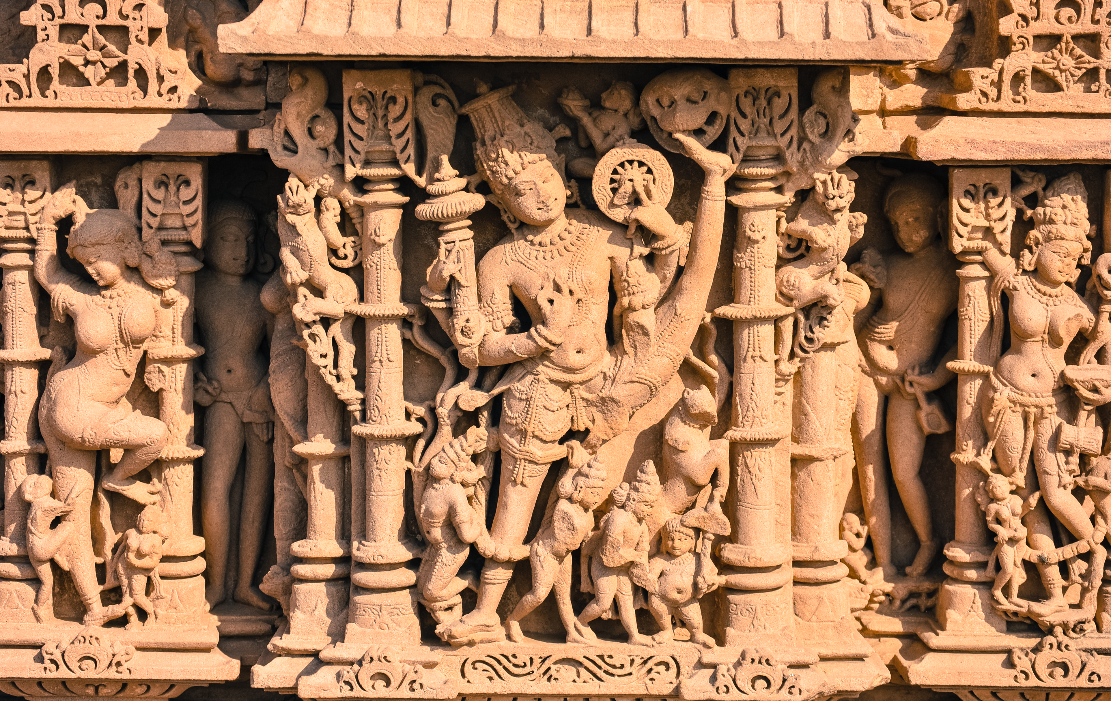 The temple of Osiya-Rajasthan